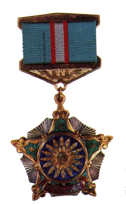 Award of "Honour" (Құрмет) of Republic Kazakhstan. A sign on an old sample.